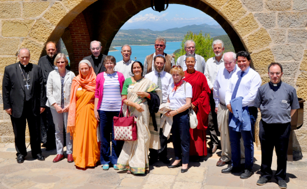 17 participants on ISSREC